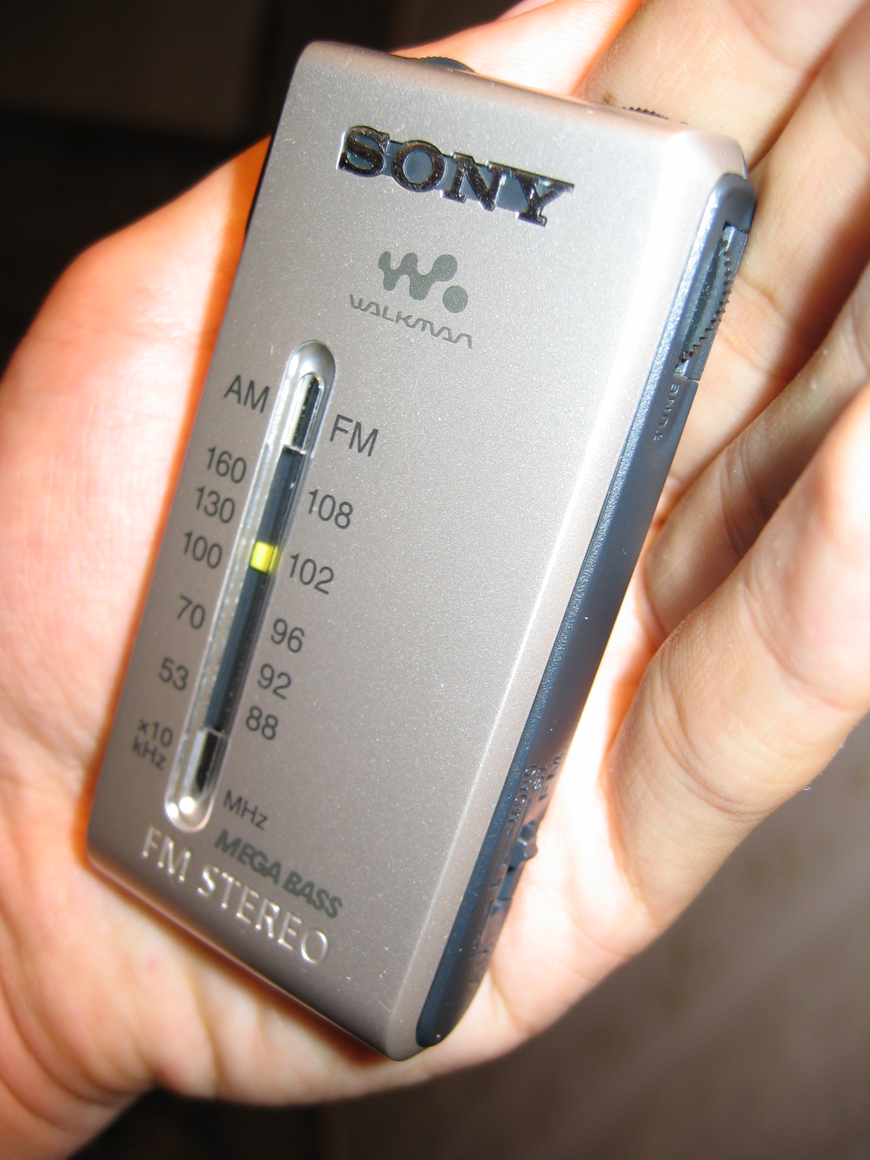 Sony Walkman SRFS84S/SRF-S84 Silver 'pocket radio'/'miniature radio'. Taken en:31 May en:2005. Source: Jonathan Ah Kit External link: Sony Style NZ